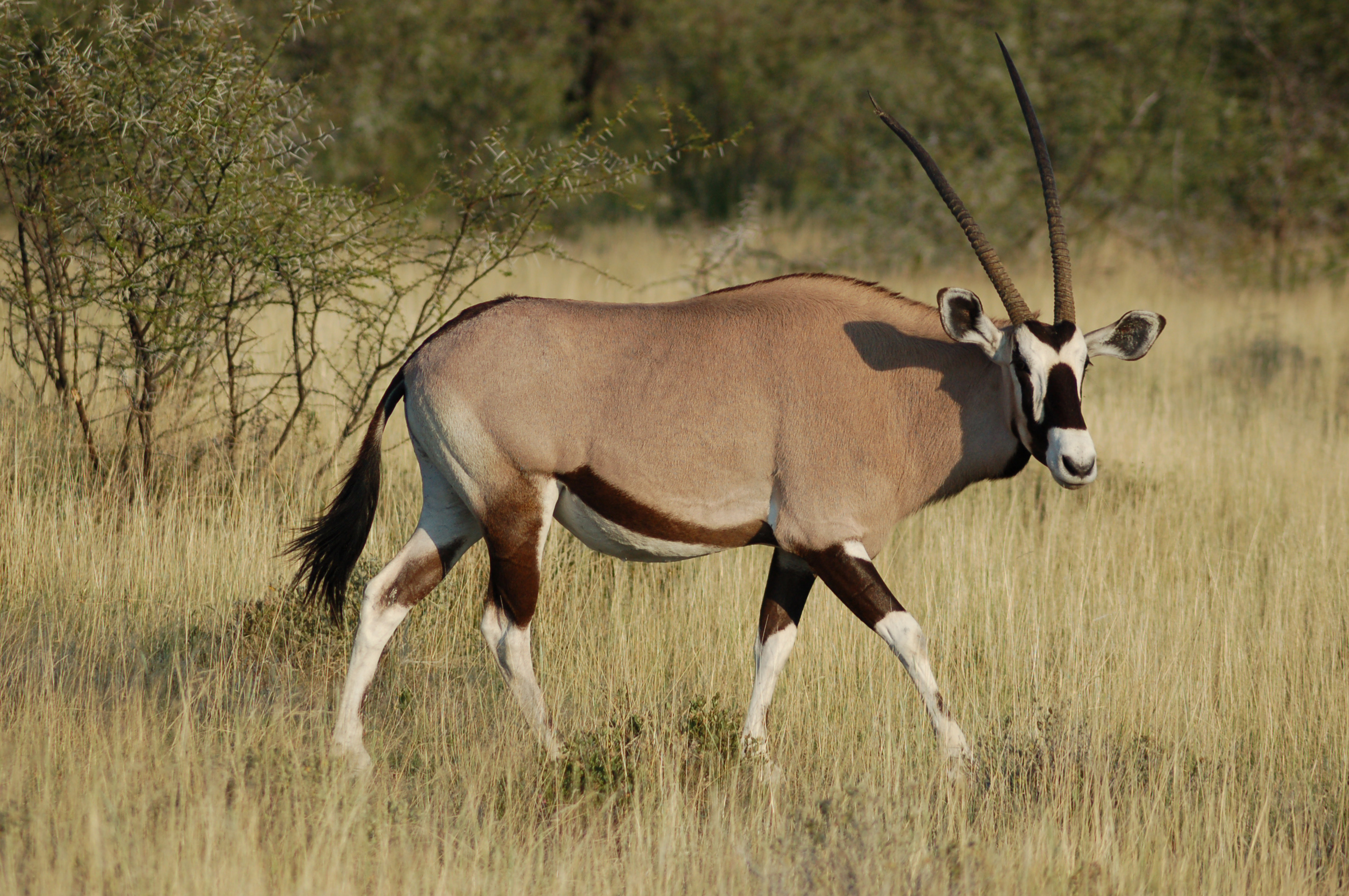 A gemsbok (also known as gemsbuck) at Etosha National Park, Namibia.